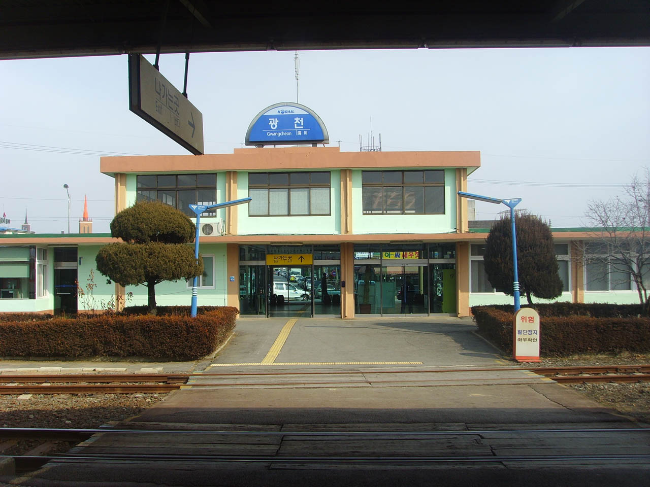 Janghang Line Gwangcheon Station (Sinjin-ri, Gwangcheon-eup, Hongseong-gun, Chungcheongnam-do, South Korea)